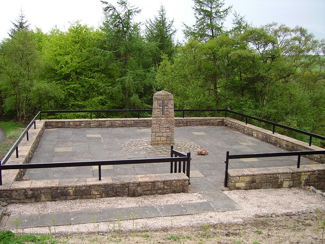 Penmanshiel Monument Monument to Peter Fowler and Gordon Turnbull who were killed in a tunnel collapse here in 1979. The railway has been rerouted around the old tunnel.